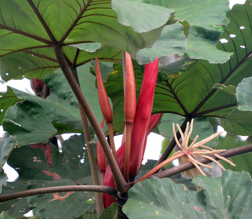 A red-sheath cecropia from west of Coca, Ecuador. (Out of range for C. insignis).